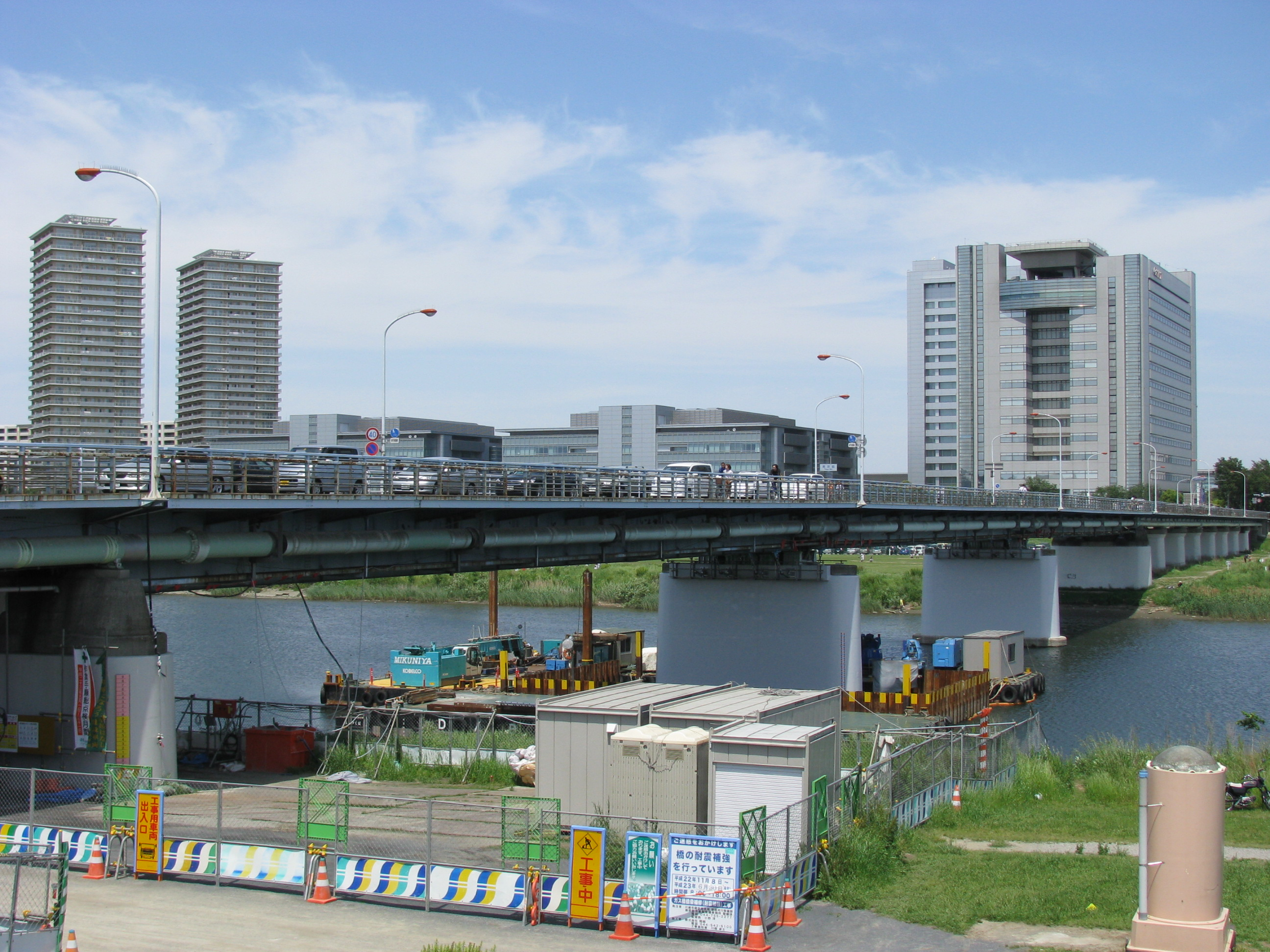 The Gas-bashi. This located is Kami-Hirama in Nakahara-ku, Kanagawa Prefecture, Japan.